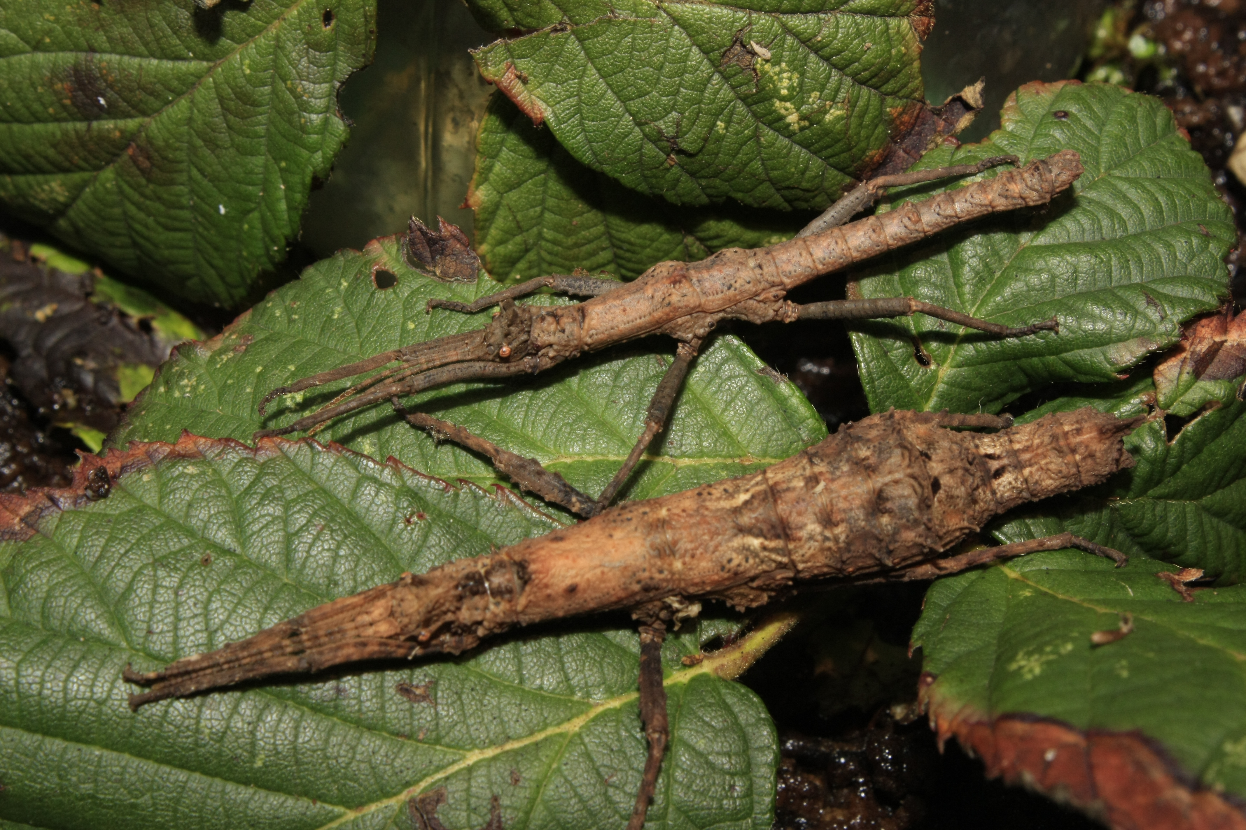 pair of Orestes bachmaensis from Bach Ma National Park (Vietnam), former called Pylaemenes sp. "Bach Ma"